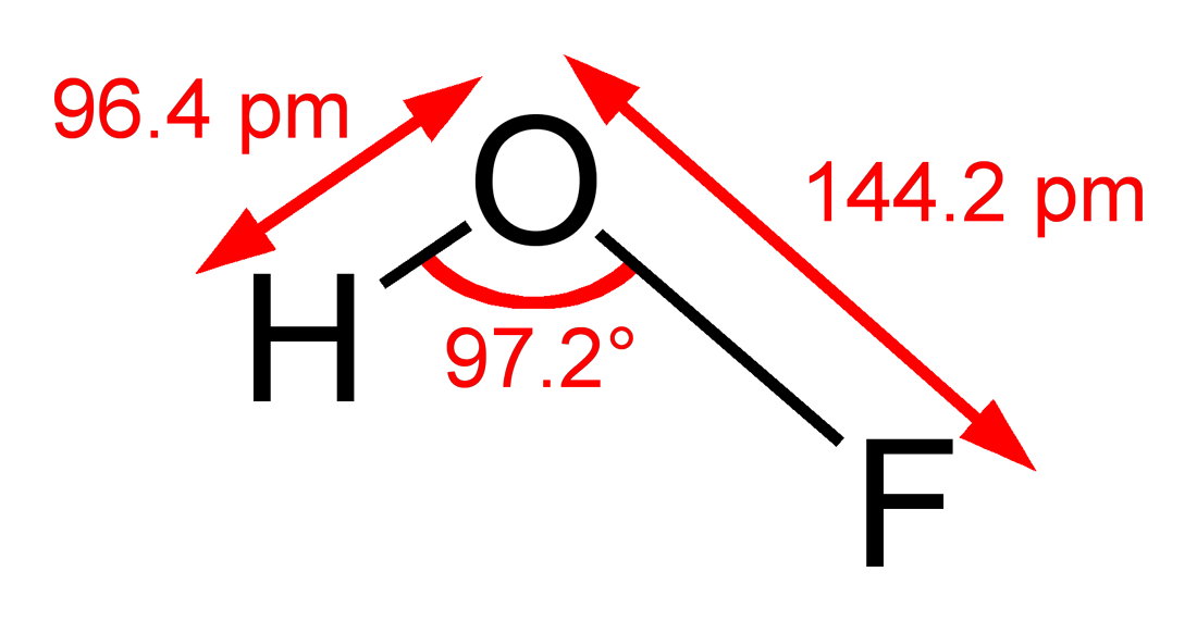 Hypofluorous acid with gas-phase structure parameters